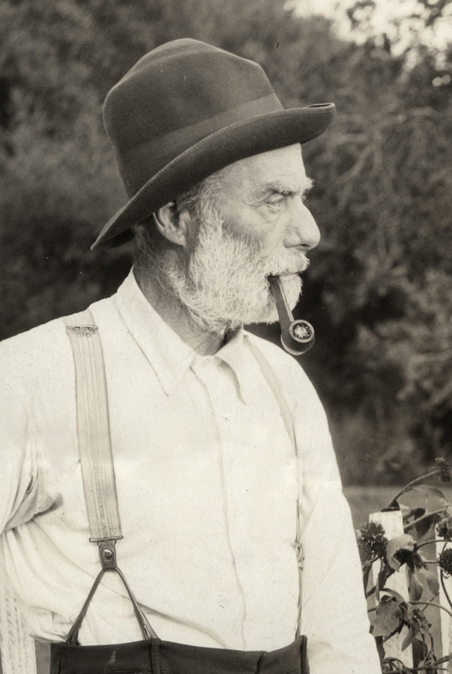 Character actor Jack McDonald in a scene still from the 1919 silent drama Better Times.